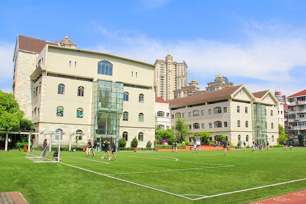 Shanghai Community International School Hongqiao Campus for Grade 1 to Grade 12 中文（中国大陆）: 上海长宁国际外籍人员子女学校 位于长宁区虹桥路1161号 -- 一年级至十二年纪